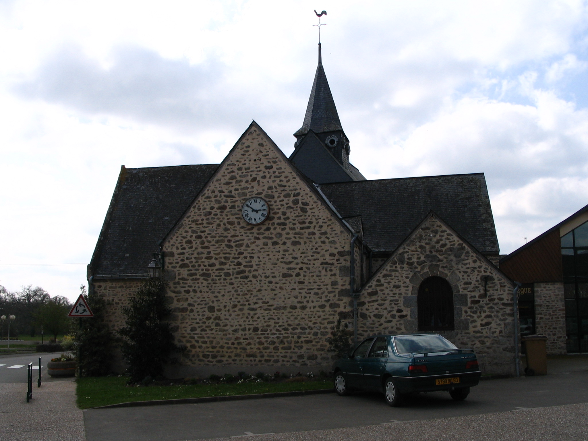 The church of La Bazoge-Montpinçon, Mayenne, France.